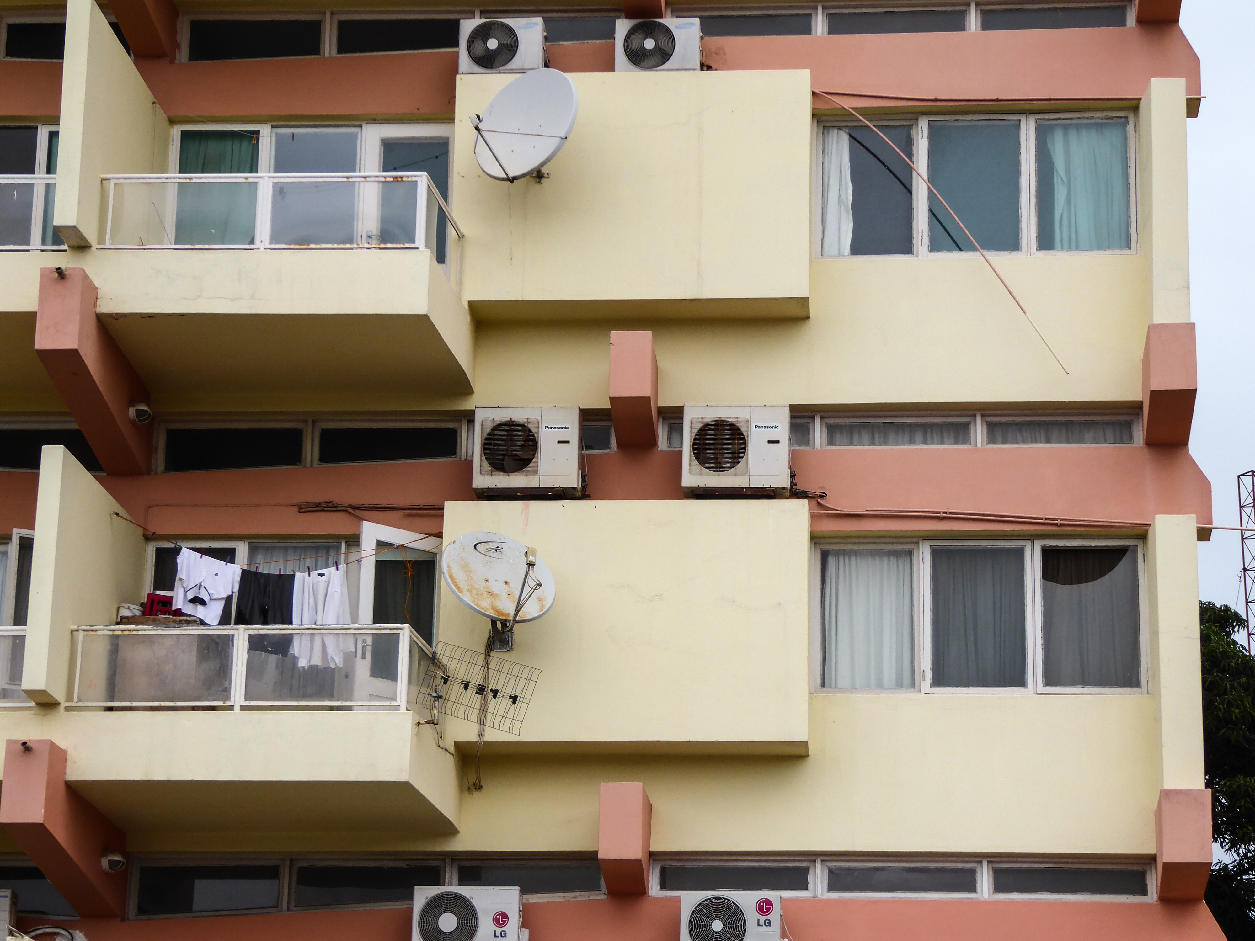 Detail of Prometheus building, by Pancho Guedes, Maputo, Mozambique